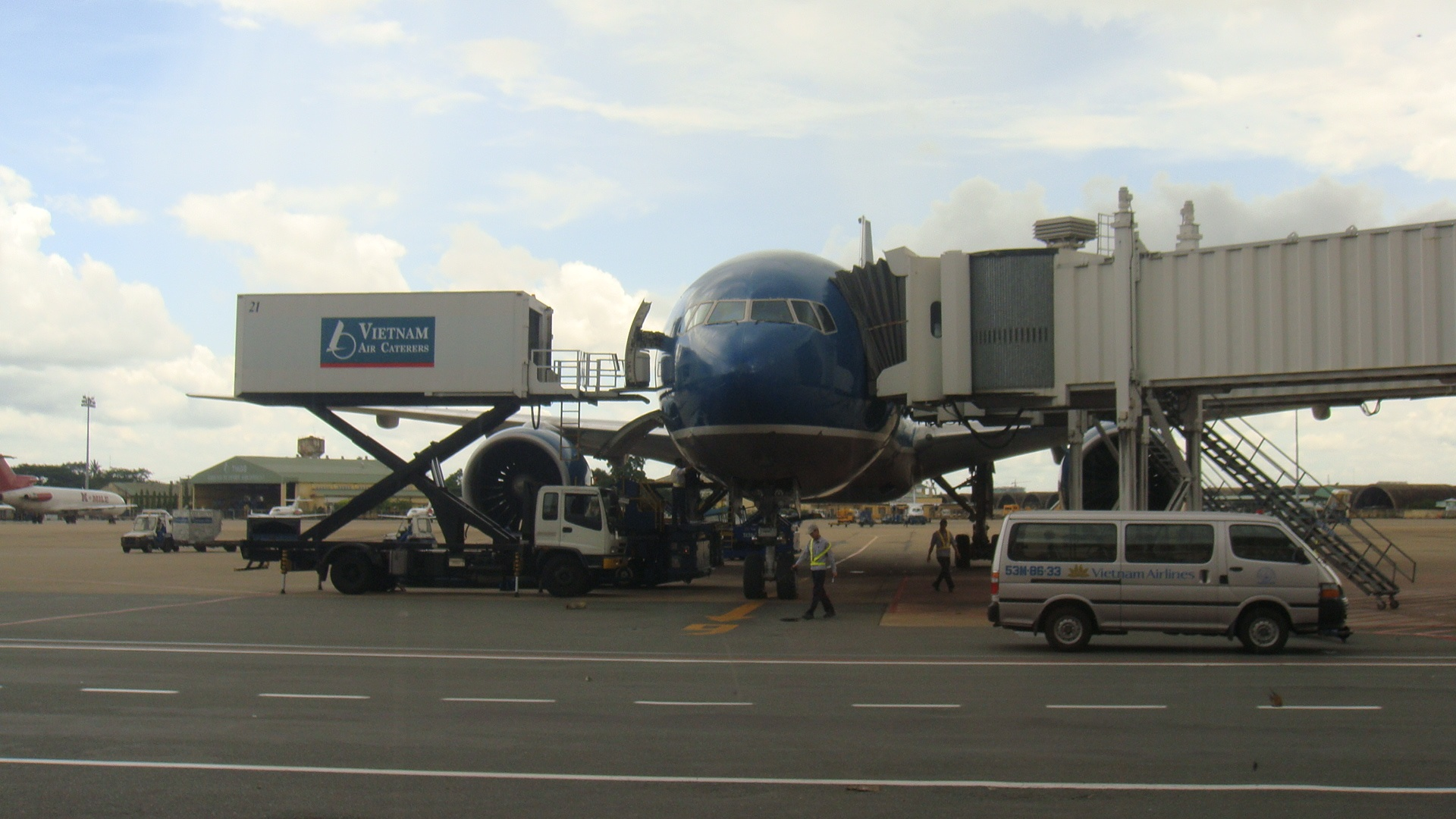 A Vietnam Airlines Boeing 777-200ER being catered by Vietnam Air Caterer. The aeroplane has just arrived in Ho Chi Minh City (Saigon) from Hanoi.